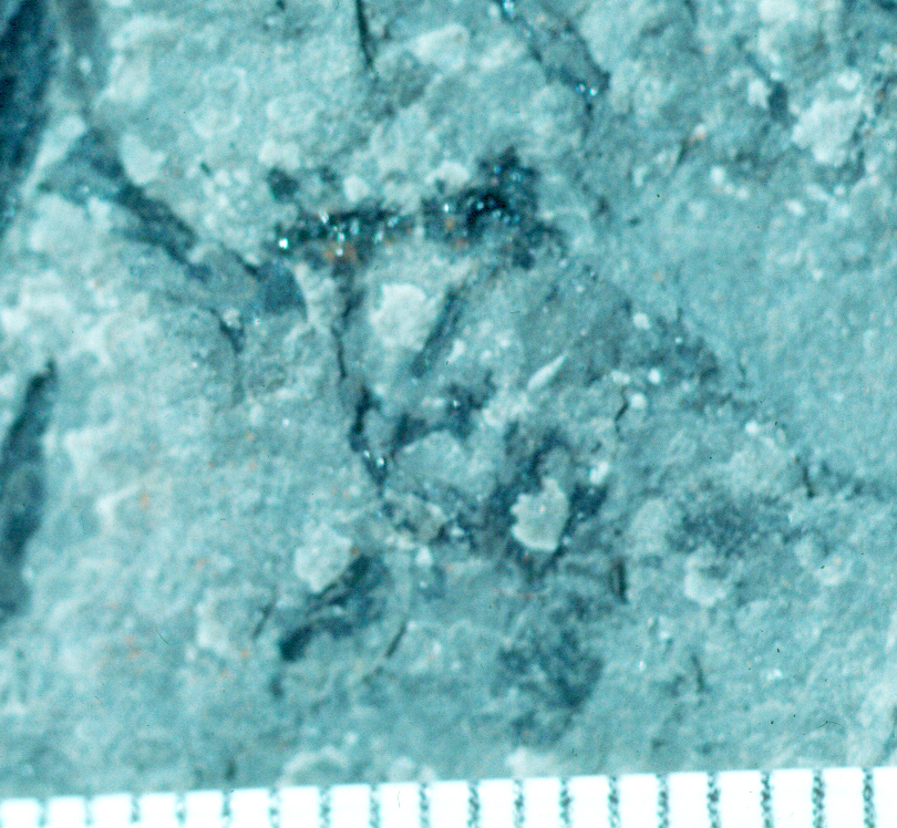 Pollen organ Permotheca helbyi from latest Permian Coal Cliff Sandstone in Oakdale Colliery, NSW (specimen UNEF13370 from locality UNEL1370)